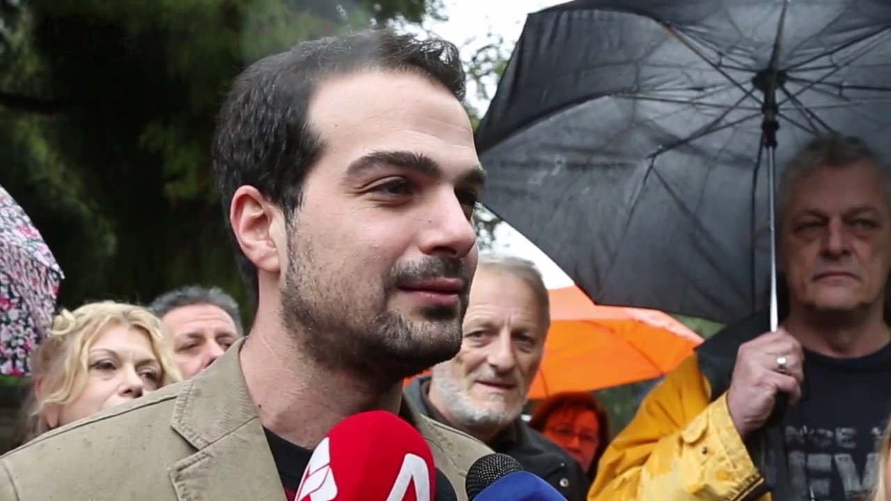 Gabriel Sakellaridis, Greek economist and speaker of the Tsipras Cabinet, in 2014.